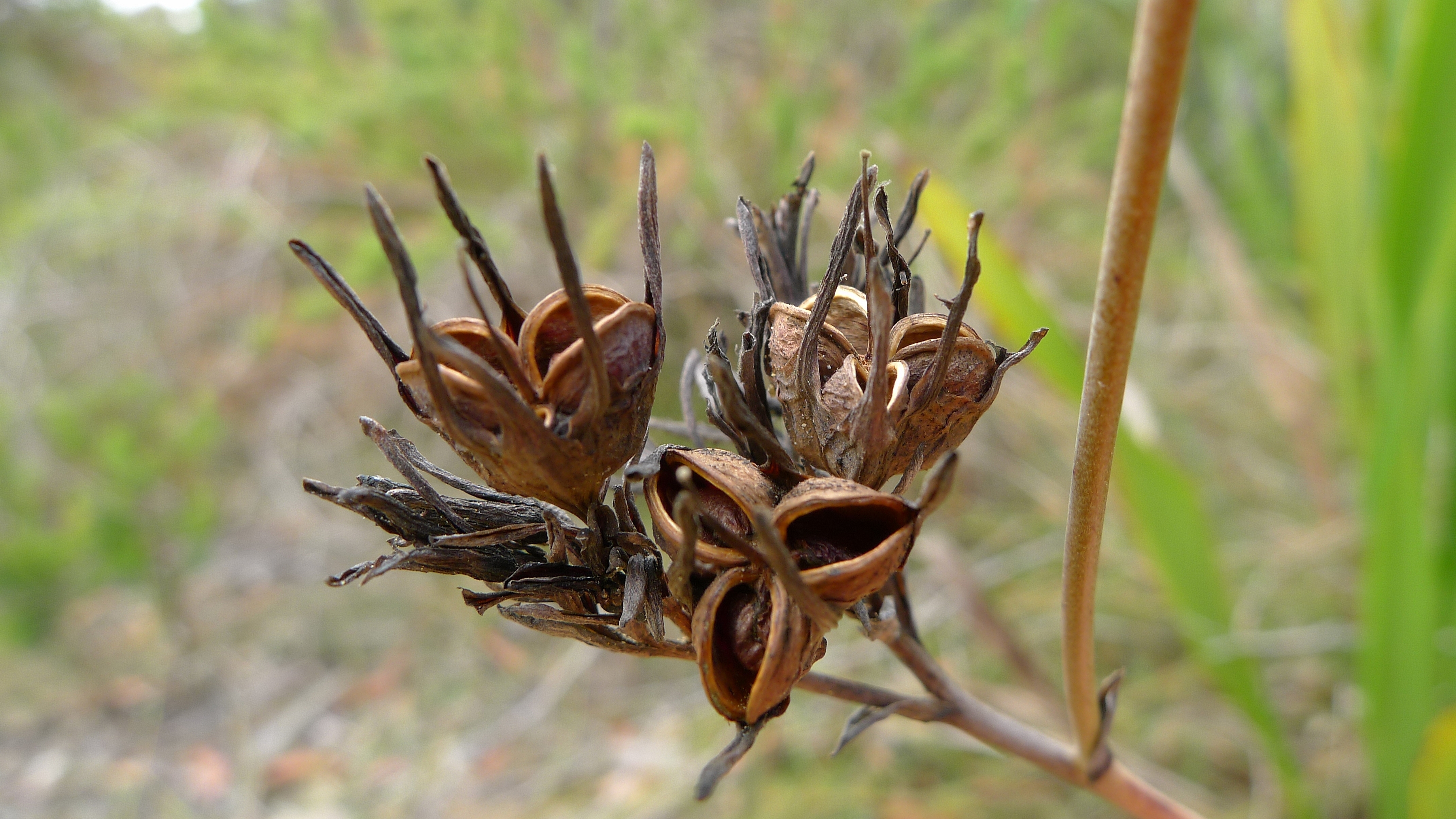 Rush-leaf Bloodroot, Haemodorum corymbosum, seed head. Royal National Park, NSW Australia, January 2014.